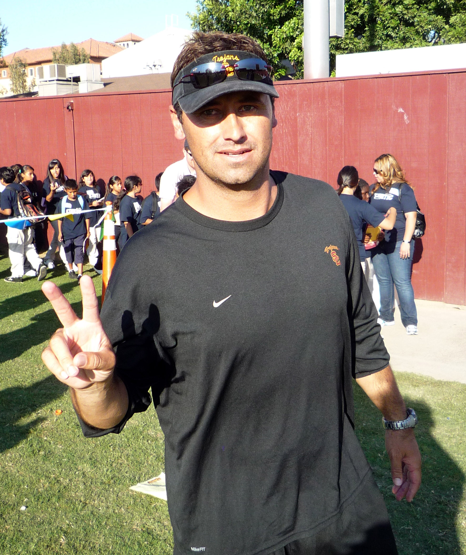 Offensive Coordinator Steve Sarkisian, after a fall practice preceding the 2008 USC Trojans football season. He is making the traditional USC Trojan "V" for victory hand sign.